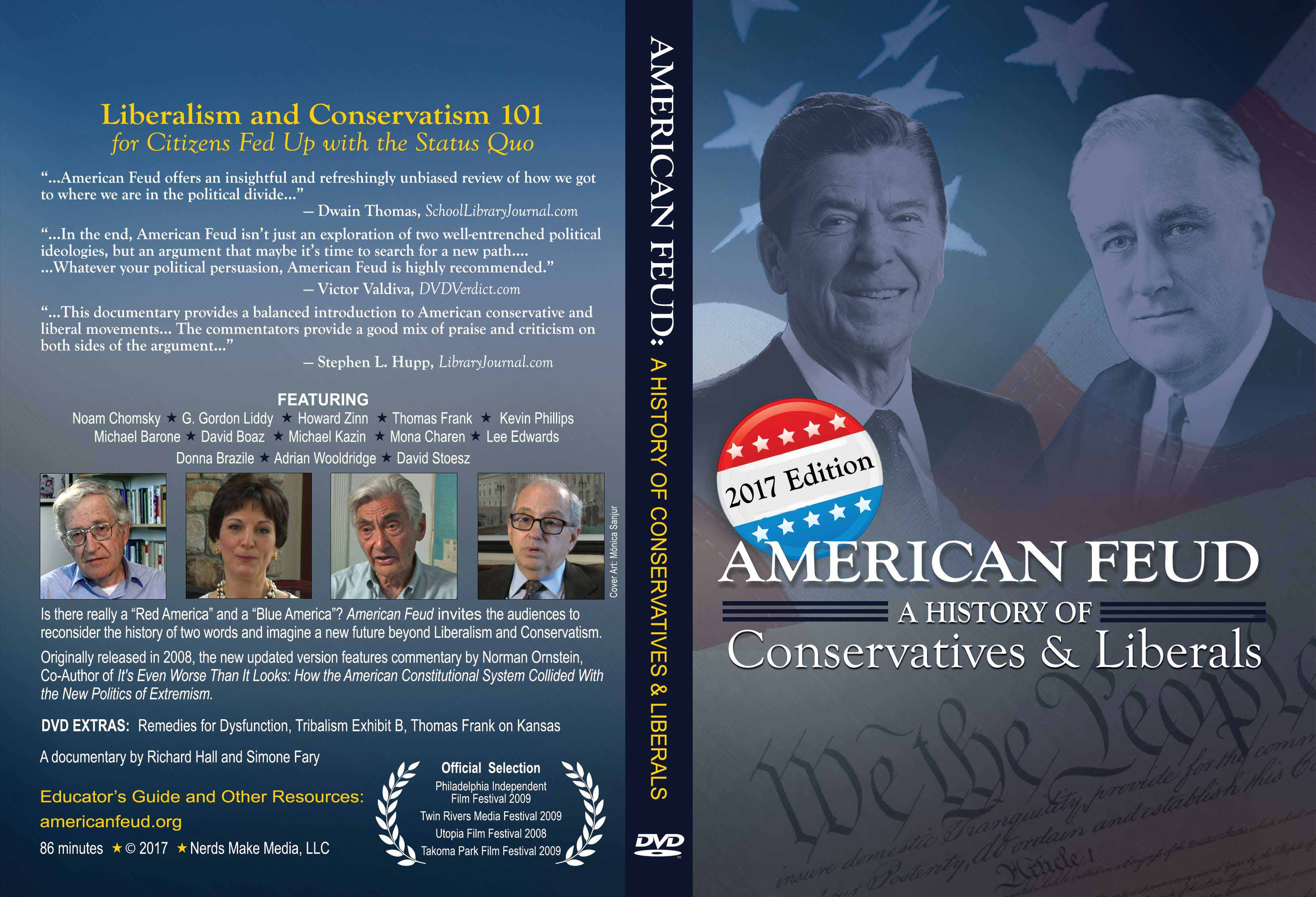 Cover artwork for the 2017 edition